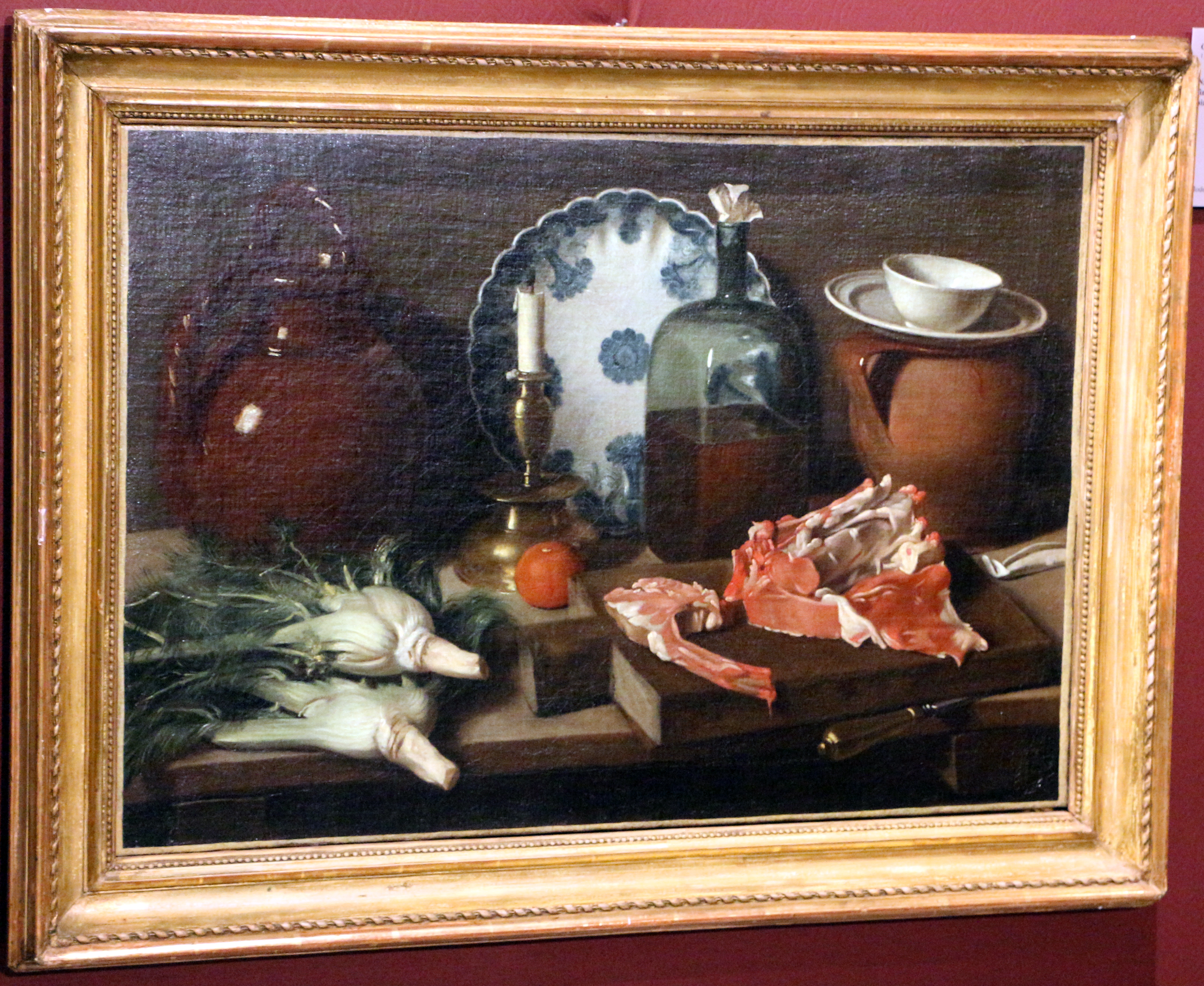 Il Tesoro d'Italia (exhibition at Expo 2015)Il Tesoro d'Italia (exhibition at Expo 2015)